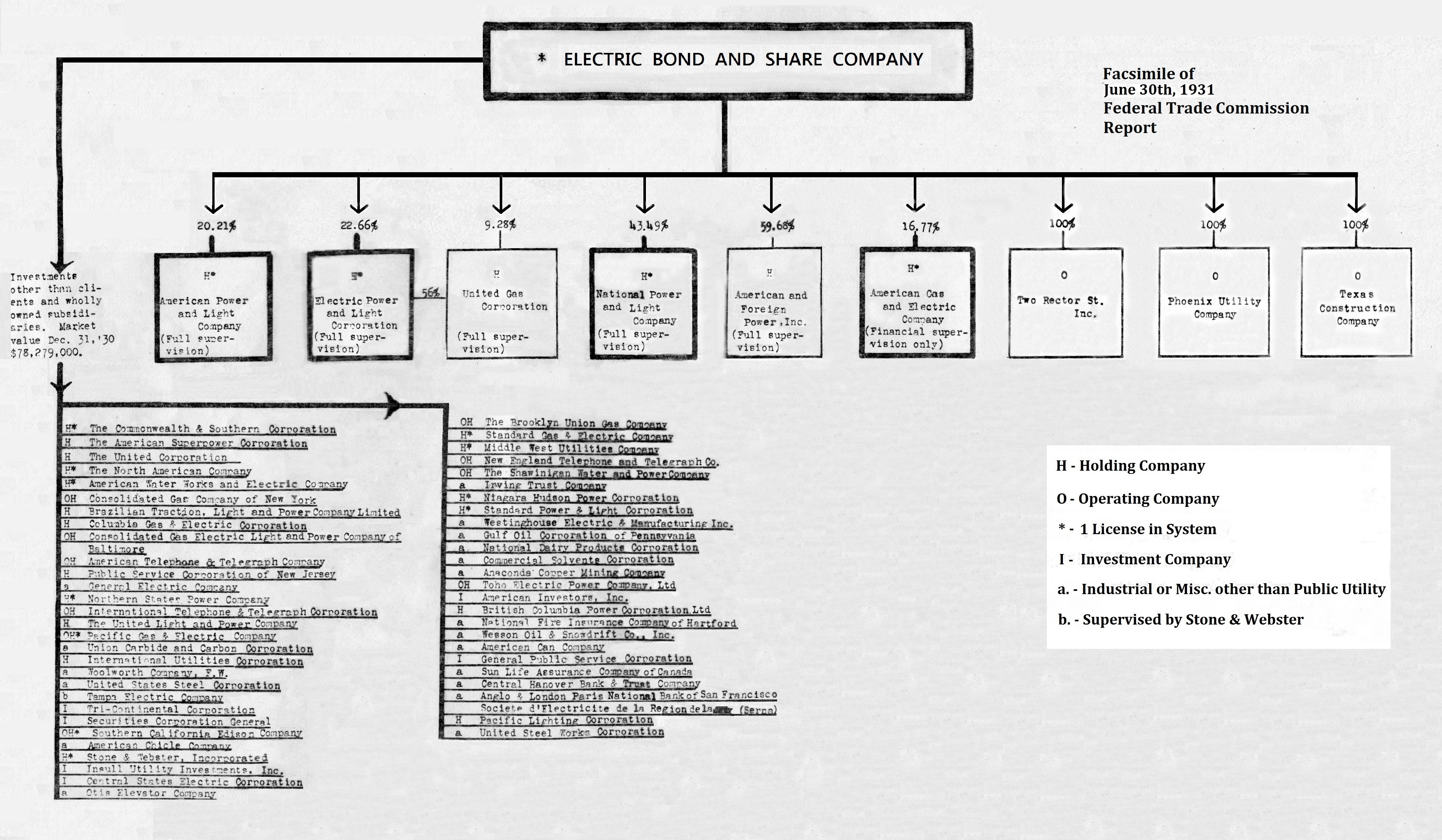 Ebasco was once the largest owner of electric companies in the United States and was forced to break up by the 1935 Public Utilities Holding Company Act.